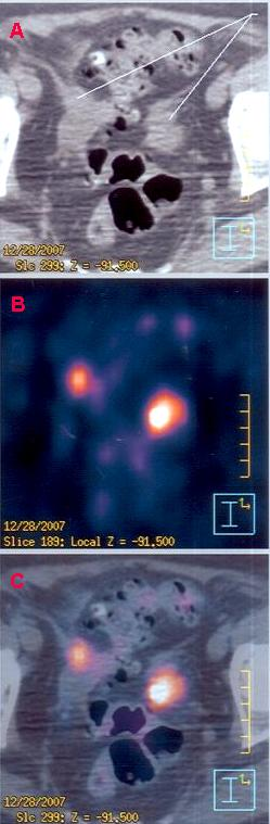 Excerpt of PET-CT clinical images from a 69-yrs old female with metastases in the pelvic area, evidenced by hypermetabolic spots, one near the sigmoid colon (at right), another in a lymphatic node (at left). Obtained with a Philips PET-CT device in the Cancer Hospital of São Paulo. Patient identification is not shown.